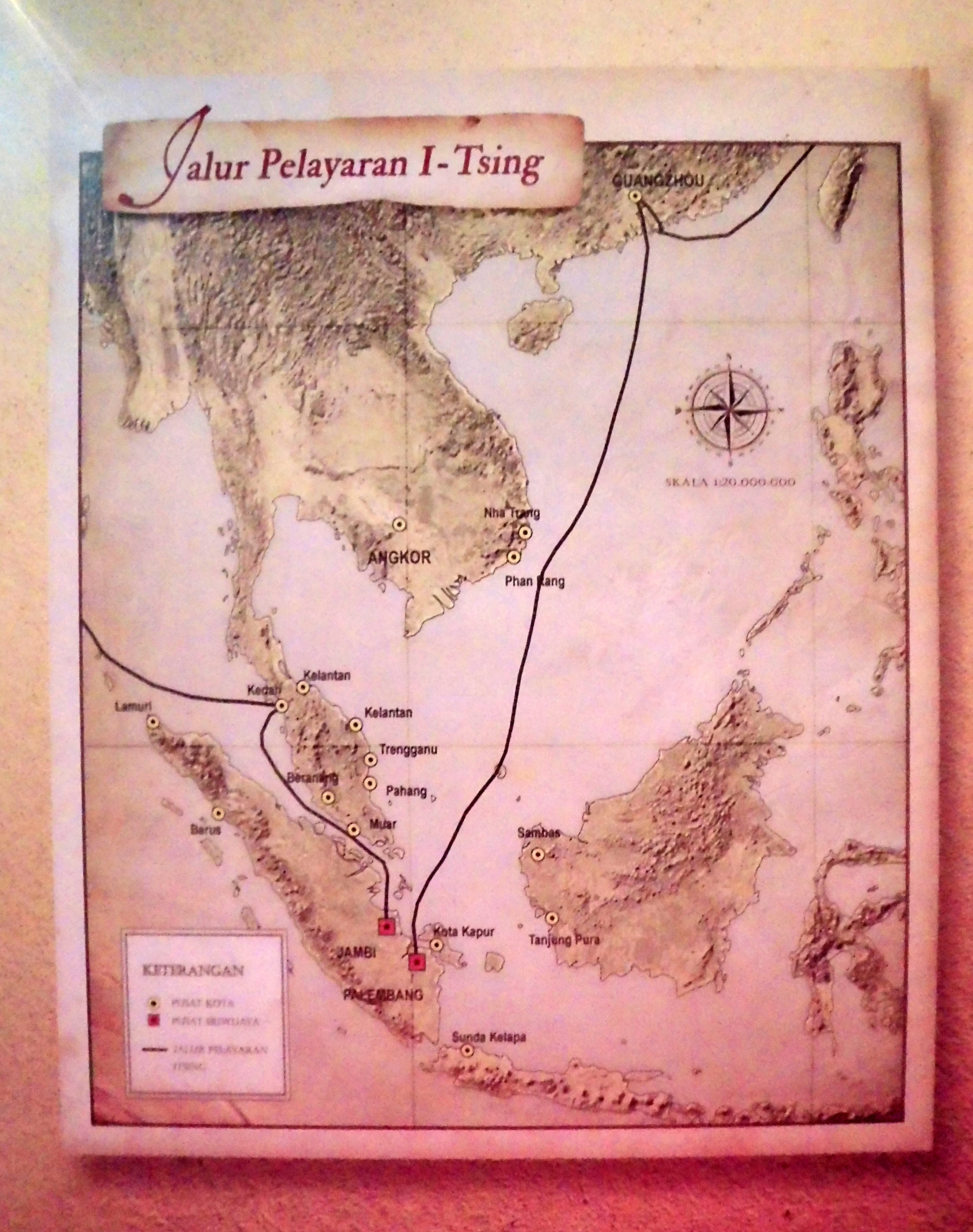 The route of I-Tsing (Yi Jing) a 7th century Chinese Buddhist monk pilgrimage. Displayed in "Kedatuan Sriwijaya" exhibition in November 2017. National Museum of Indonesia, Jakarta, Indonesia.